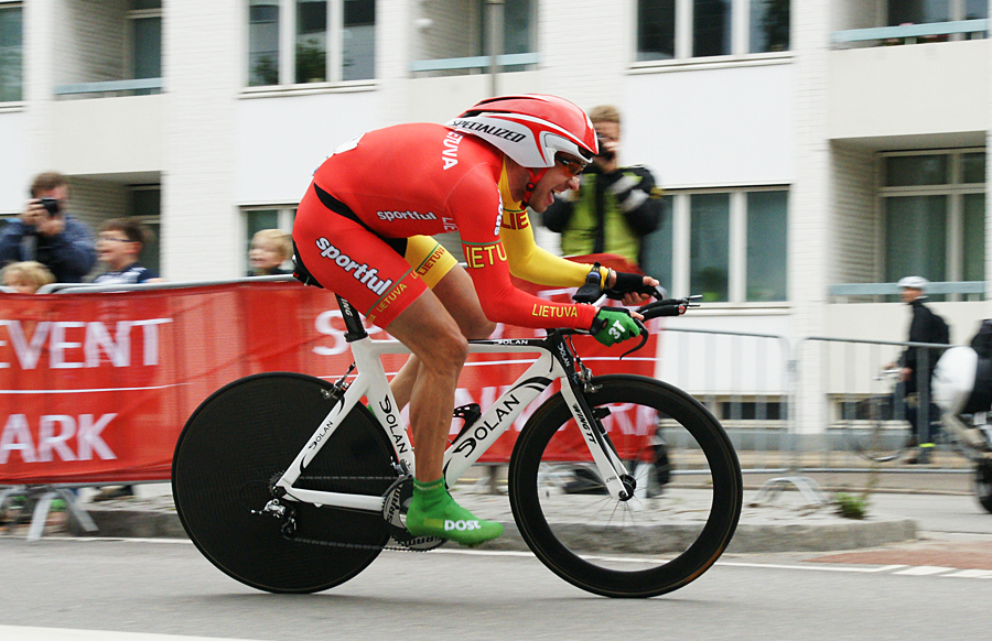 2011 UCI Road World Championships – Men's time trial - Gediminas Bagdonas, Lithuania